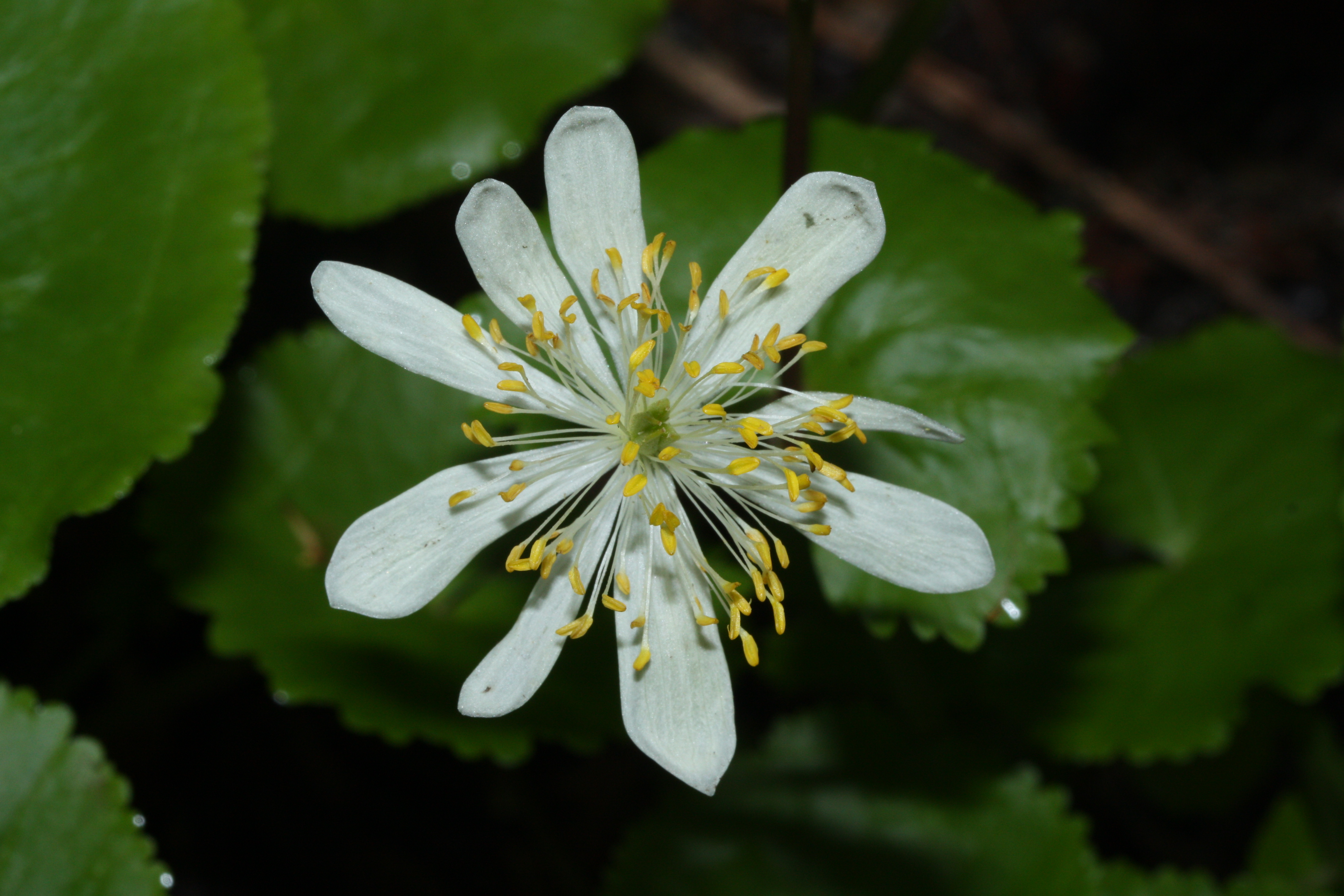 White Marshmarigold, Twinflowered Marshmarigold, Broadleaved Marshmarigold